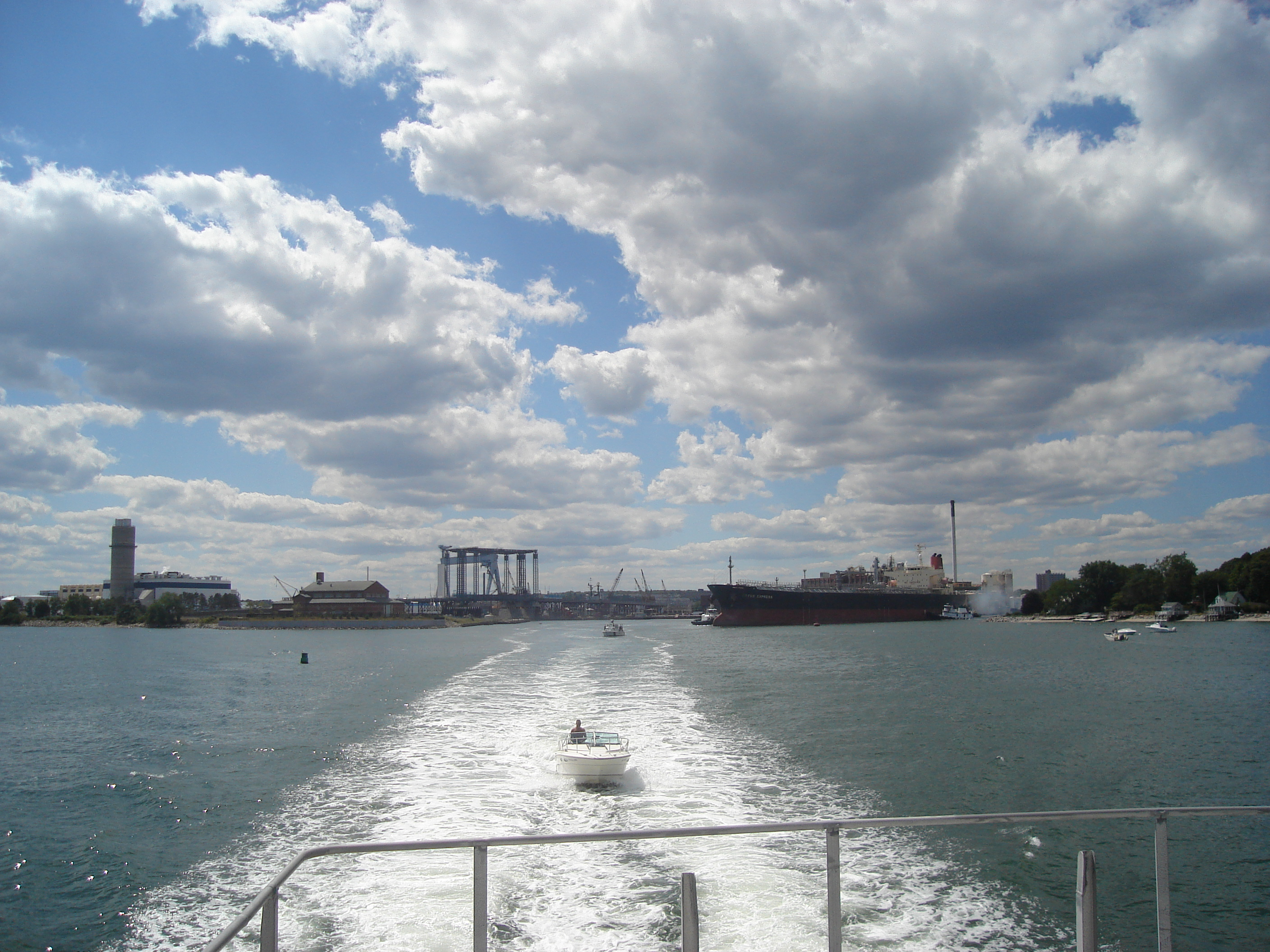 Mouth of Weymouth Fore River